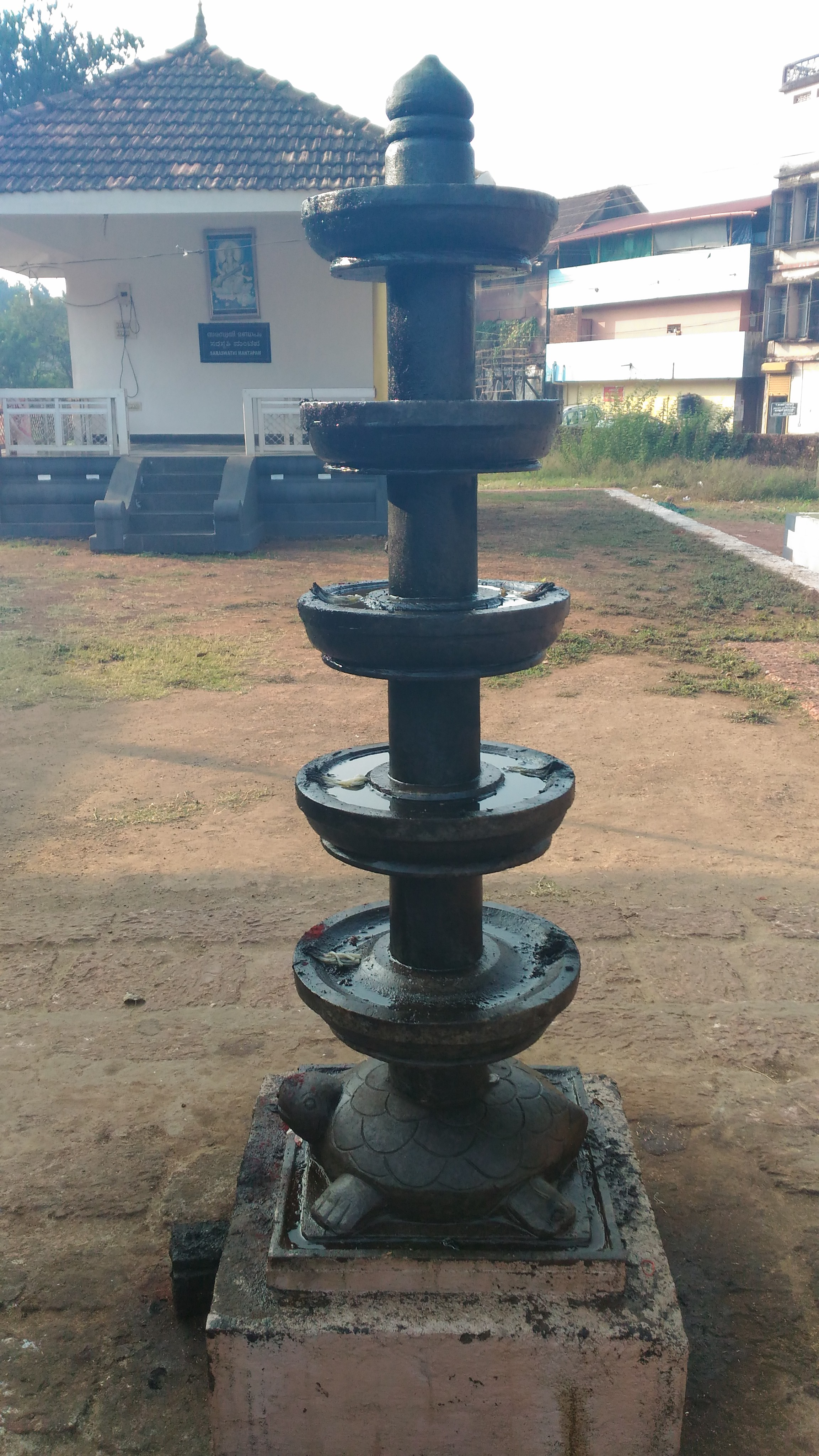 A stone lamp in front of Mariyamman Kovil at Hosdurg, kanhangad